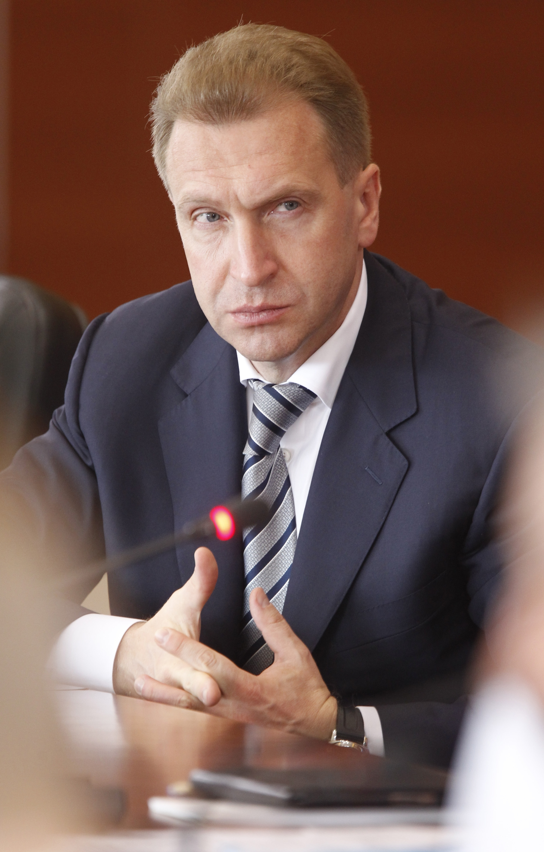 First Deputy Prime Minister Igor Shuvalov at а meeting of the State Commission for the Socio-Economic Development of the Far East, the Republic of Buryatia, the Trans-Baikal Territory and the Irkutsk Region